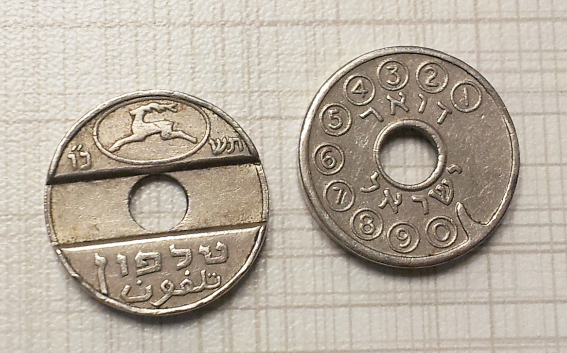 Israeli Token, dated 1966